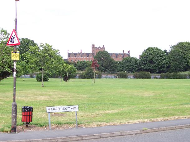 Oscott College. a.k.a. St Mary's Roman Catholic Seminary. Viewed from the new housing estate to the south.